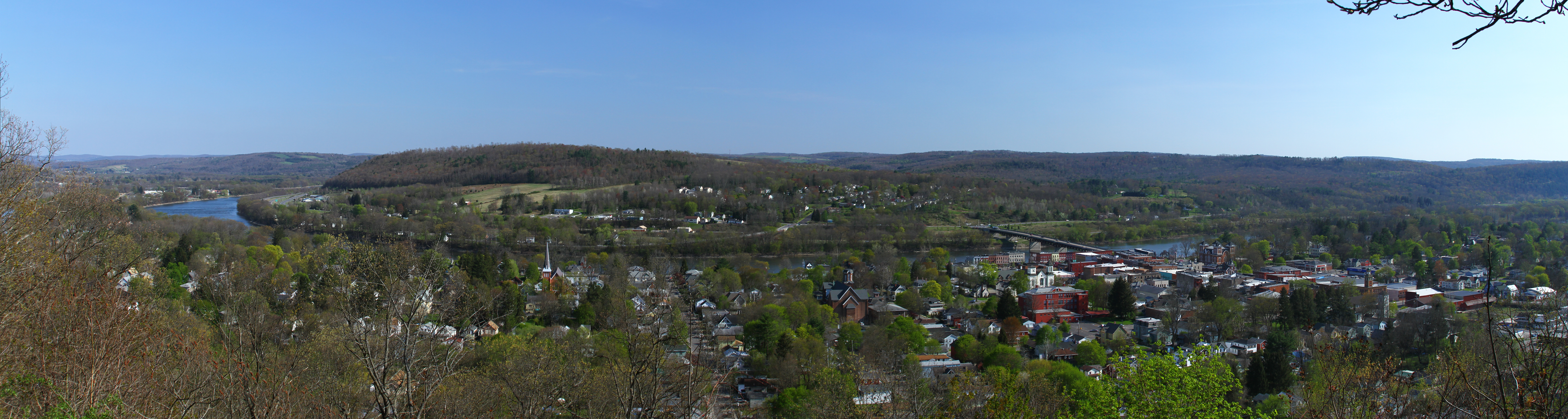 Village of Owego, New York, United State.